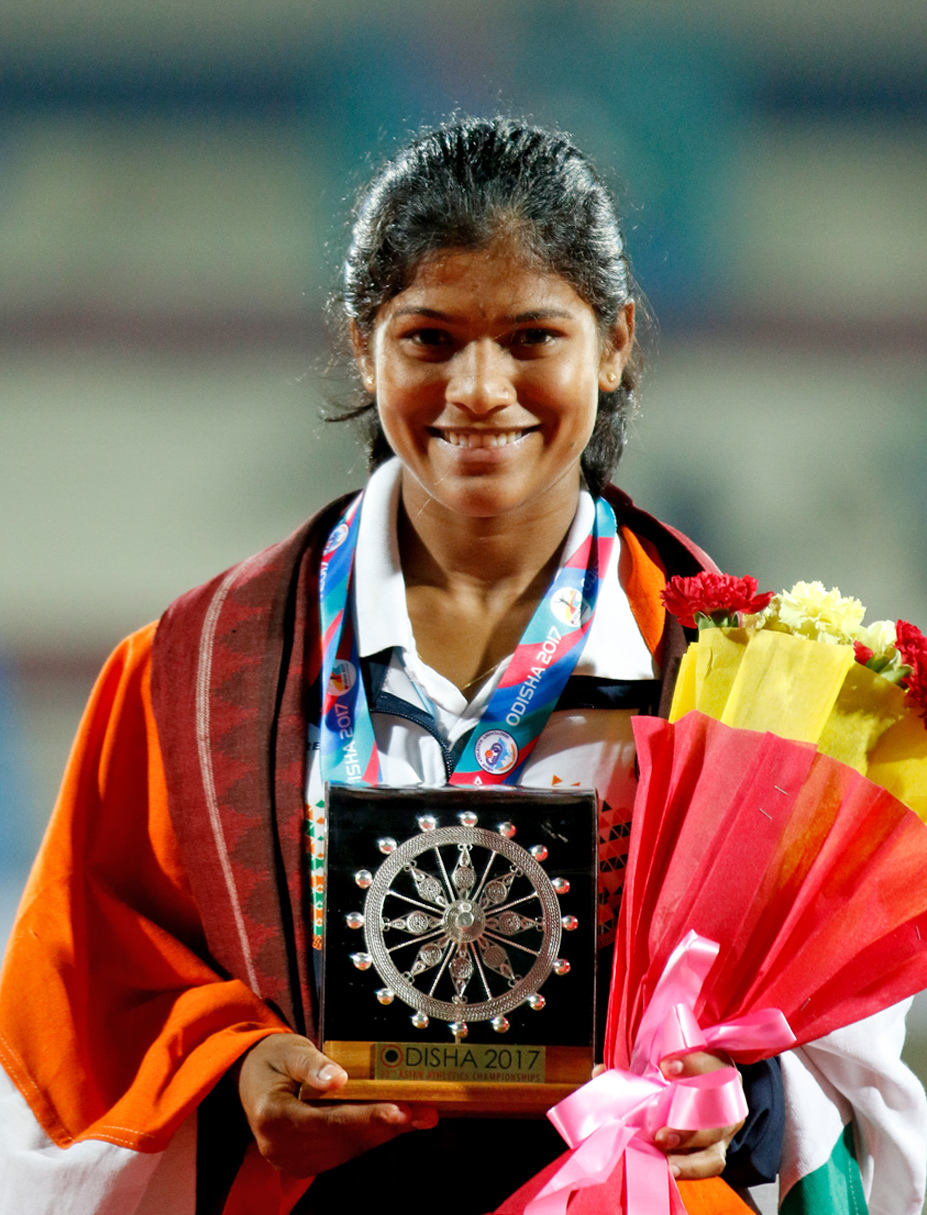 Athletes during 22nd Asian Athletics Championships in Bhubaneswar.